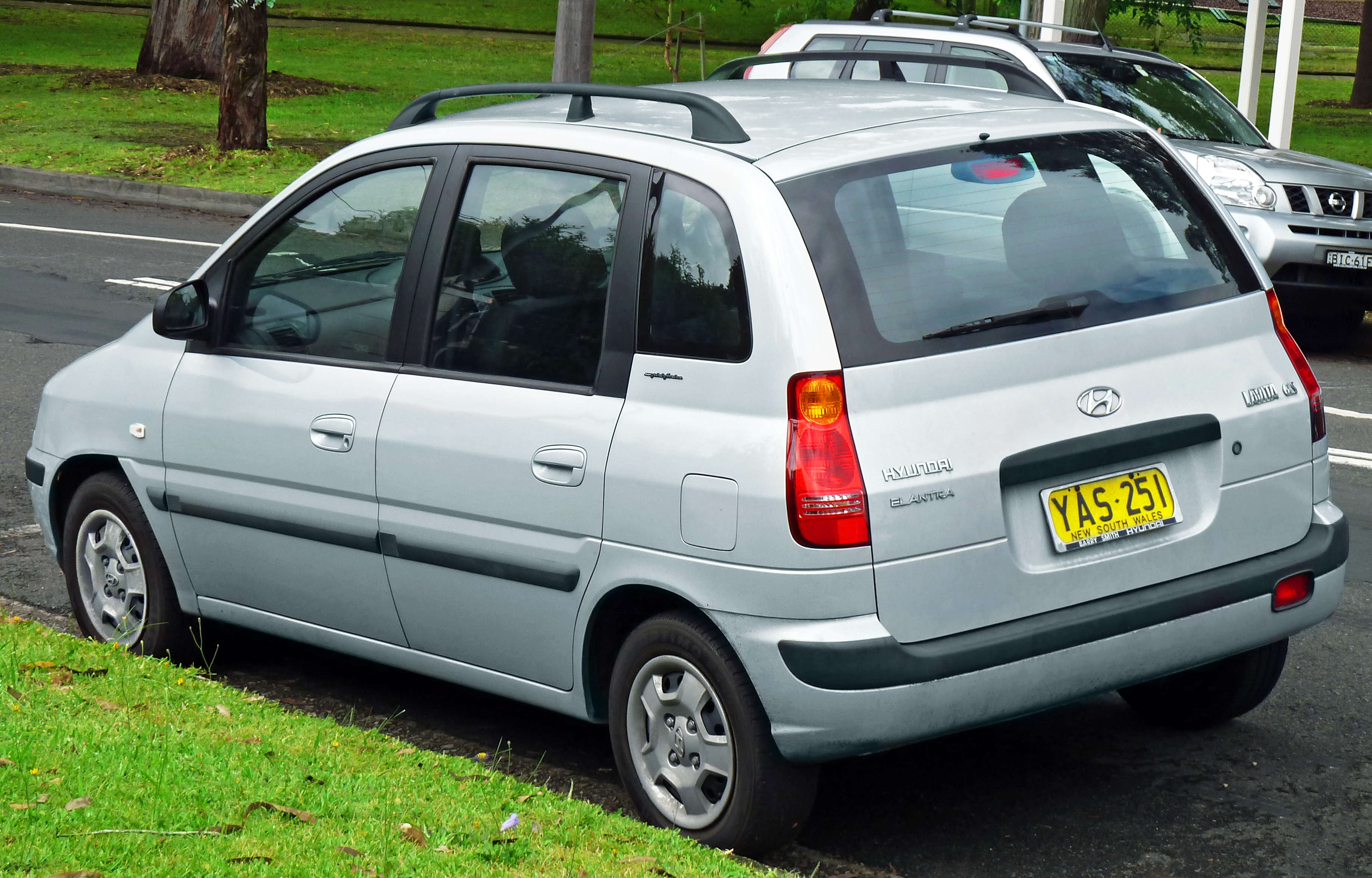 2001–2004 Hyundai Elantra LaVita (FC) GLS hatchback. Photographed in Gordon, New South Wales, Australia.